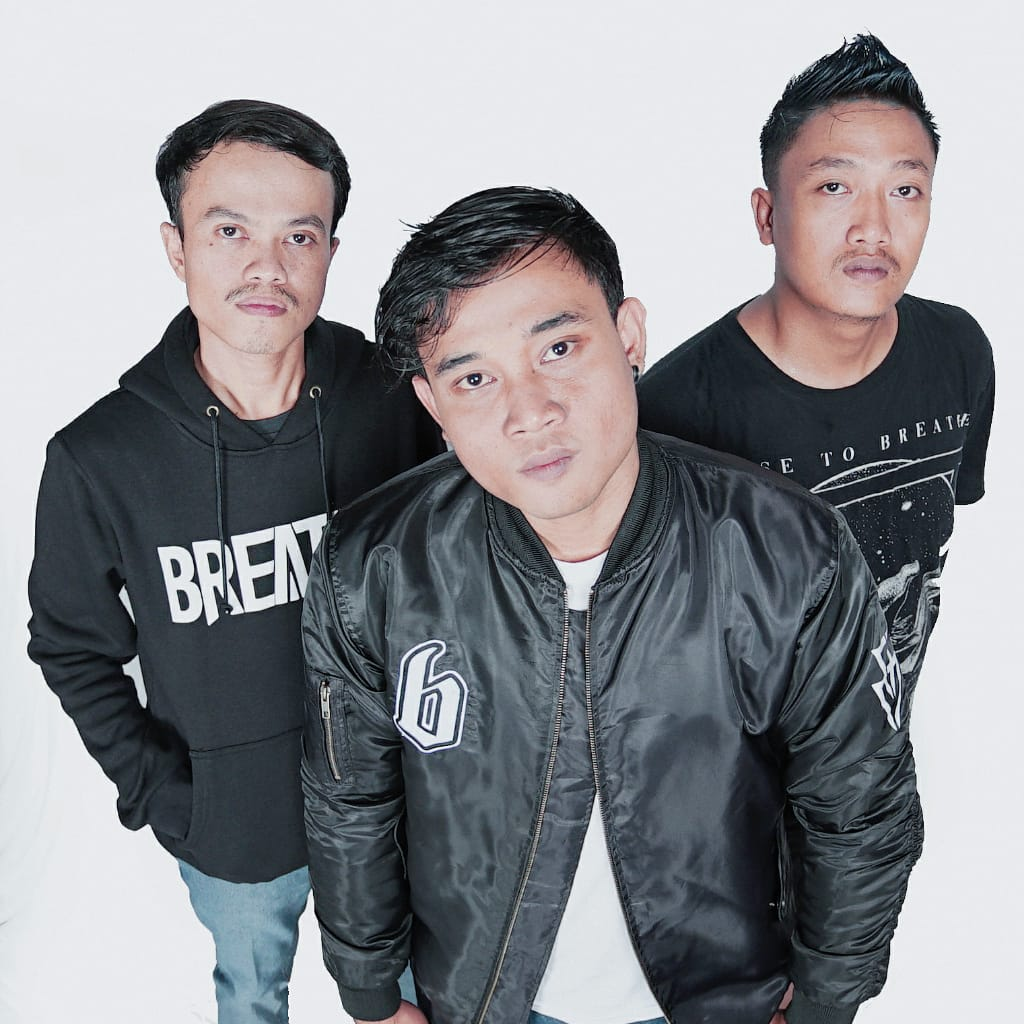 Close To Breathe Personel